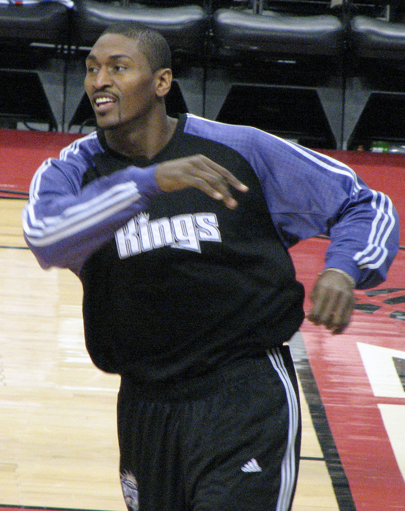 2008 01 16 - Sacramento Kings forward Ron Artest during pre-game warmups at Air Canada Centre in Toronto, Ontario. January 16, 2008.